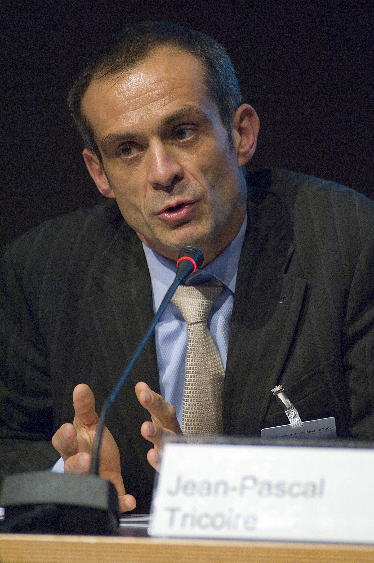 Jean-Pascal Tricoire, CEO, Schneider Electric, at the 2007 Horasis Global China Business Meeting